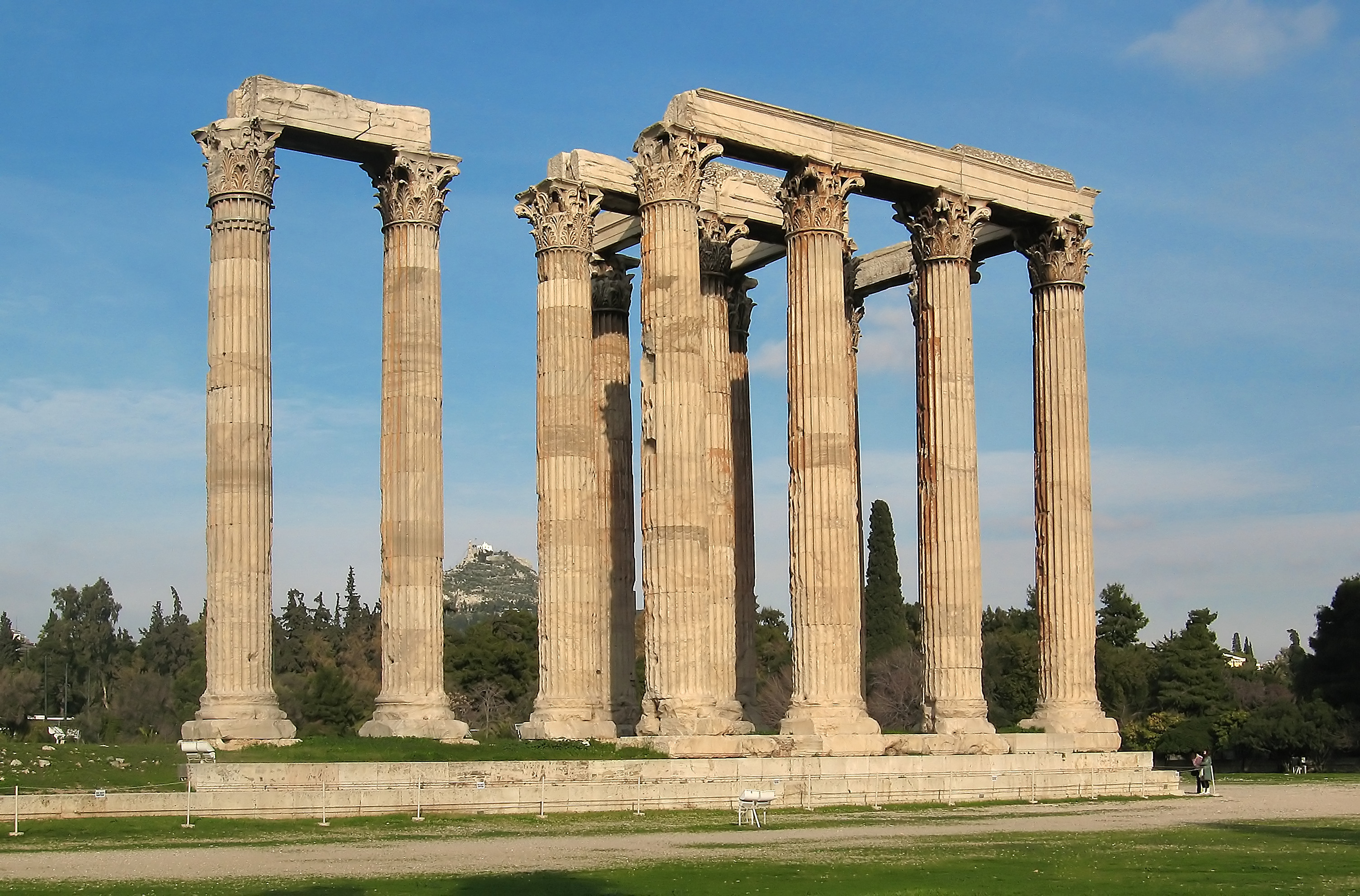 Temple of Zeus in Athens at Athens.